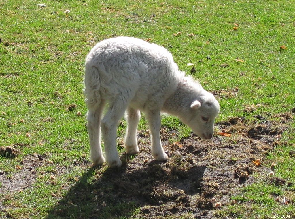 Lamb in Nunspeet, the Netherlands